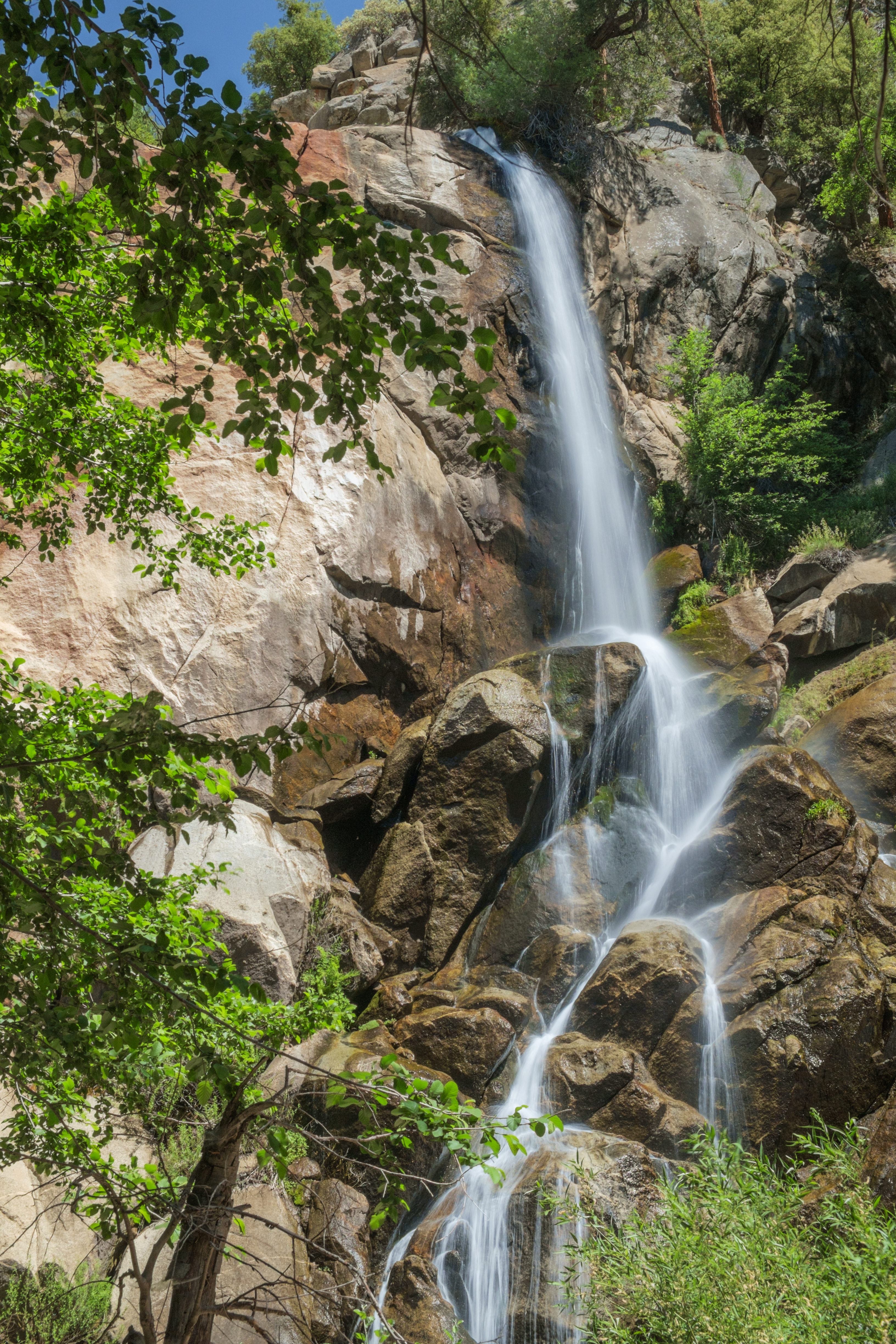 Grizzly Falls on Grizzly Creek — just before its' confluence with the South Fork of the Kings River in the Sierra Nevada. Located within the Sequoia National Forest, in Kings Canyon, California.